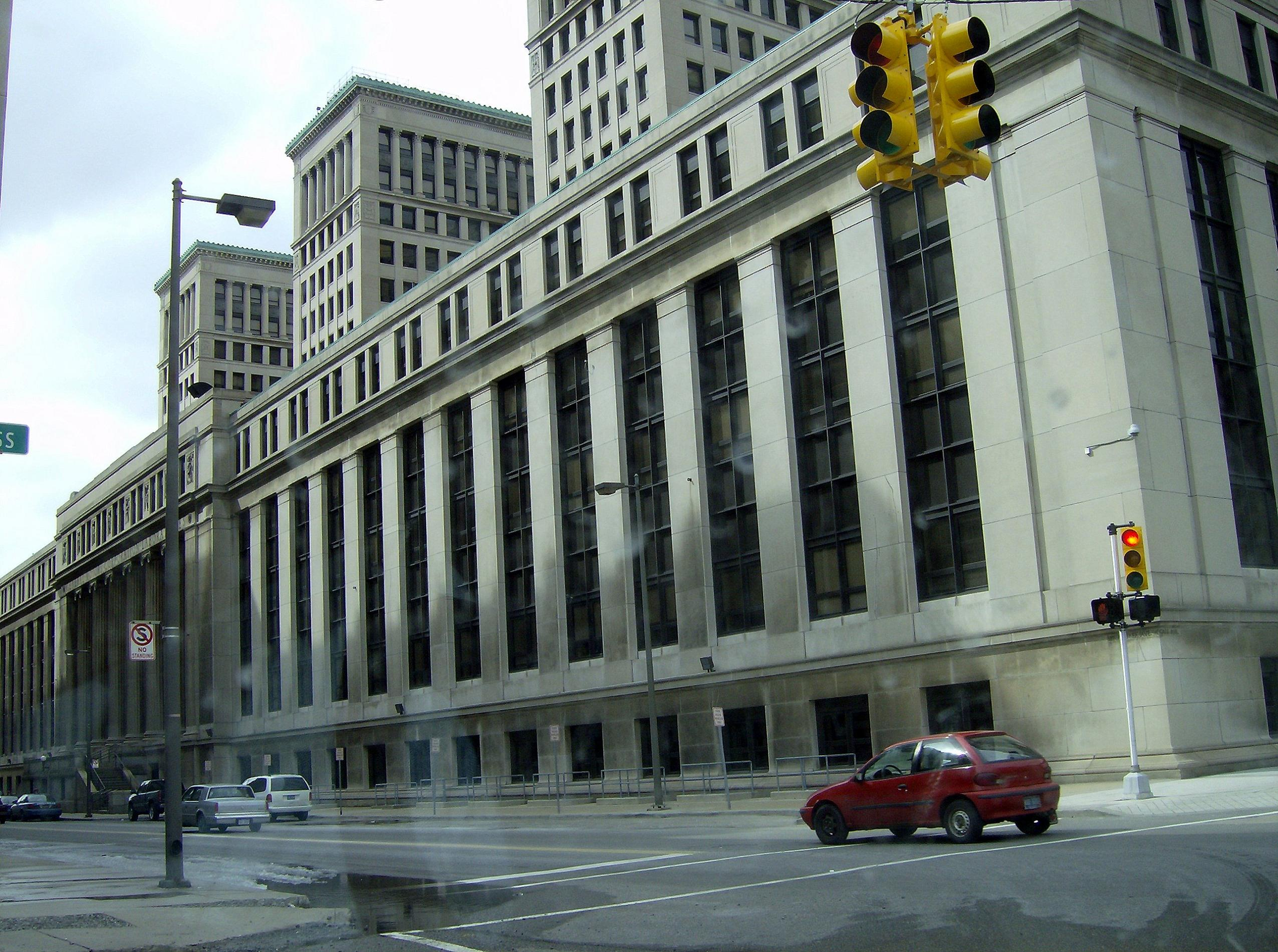 CadillacPlacefromGrand.jpg